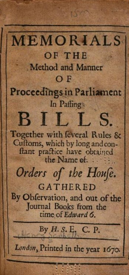 Title page of H.S. E. C.P. [Henry Scobell, Esquire, Clerk of Parliament] (1670) Memorials of the Method and Manner of Proceedings in Parliament in Passing Bills. Together with several Rules & Customs, which by Long and Constant Practice have Obtained the Name of Orders of the House. Gathered by Observation, and out of the Journal Books from the Time of Edward 6 (3rd ed.), London: [s.n.] OCLC: 7185722.